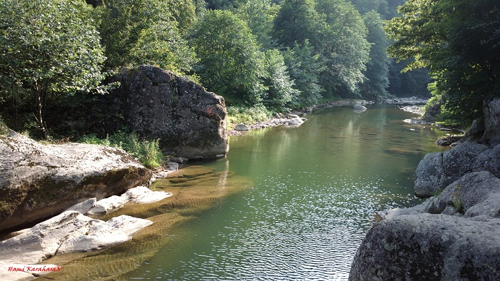 Saraycık Belediyesi